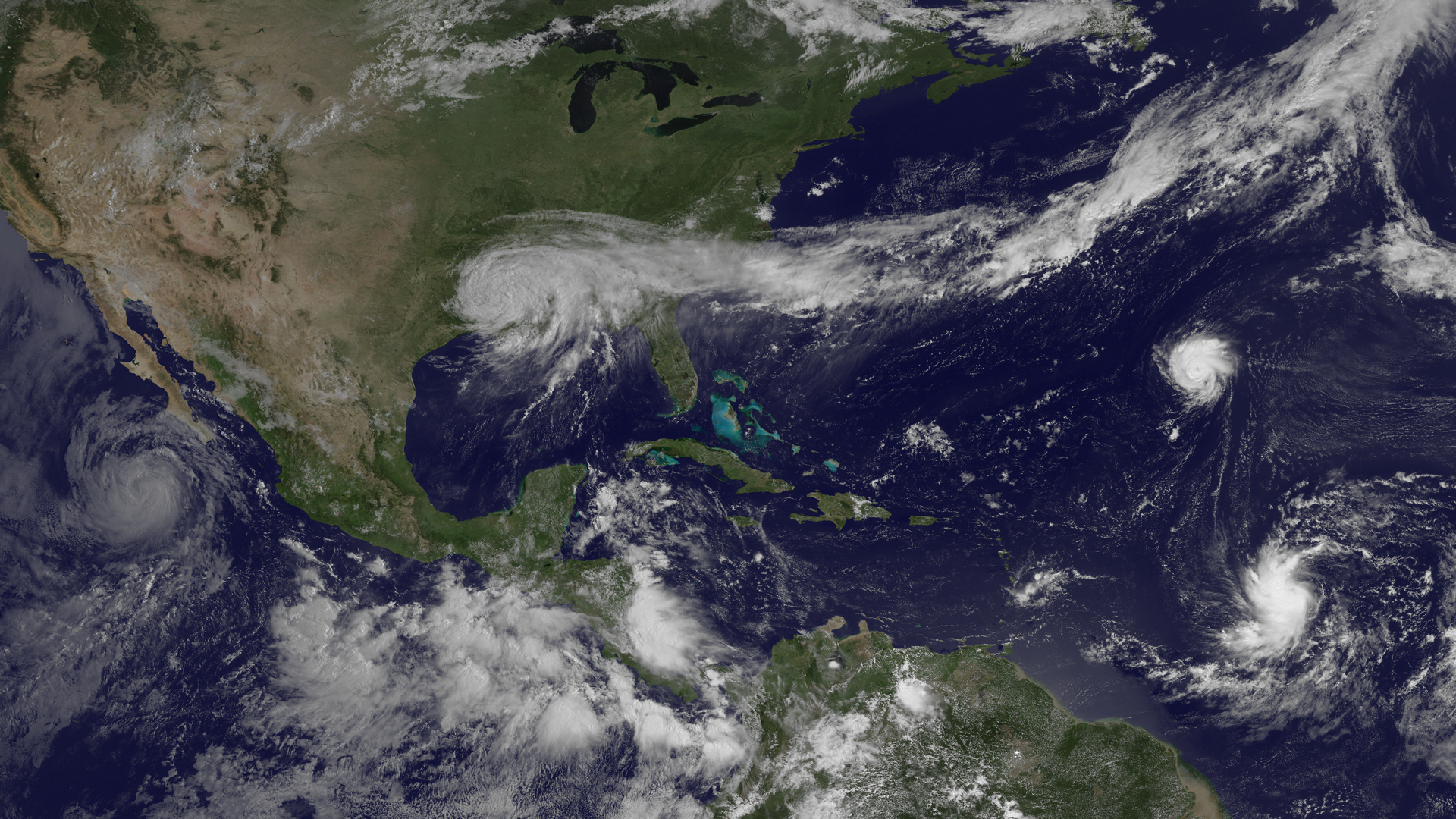 Four storms in the tropical Atlantic and Pacific are in various stages of development. Tropical Storm Isaac is slowly weakening over central Louisiana, but is still producing heavy rain, severe weather and high water levels along the northern Gulf coast. Hurricane Ileana is in the eastern Pacific and growing a little stronger, but is headed for cooler waters. Hurricane Kirk has become the fifth hurricane of the 2012 Atlantic Hurricane Season and is expected to stay well offshore. Tropical Depression 12 (soon-to-be Leslie) has formed far east of the Lesser Antilles and is forecast to reach hurricane strength in a couple of days. It is still too soon to know what impacts Tropical Depression 12 might have on land. This image was taken by GOES East at 1445Z on August 30, 2012.